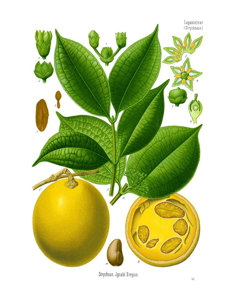 Illustration of STRYCHNOS Jgnatii Bergius. 46 (Strychnos ignatii P.J. Bergius. )